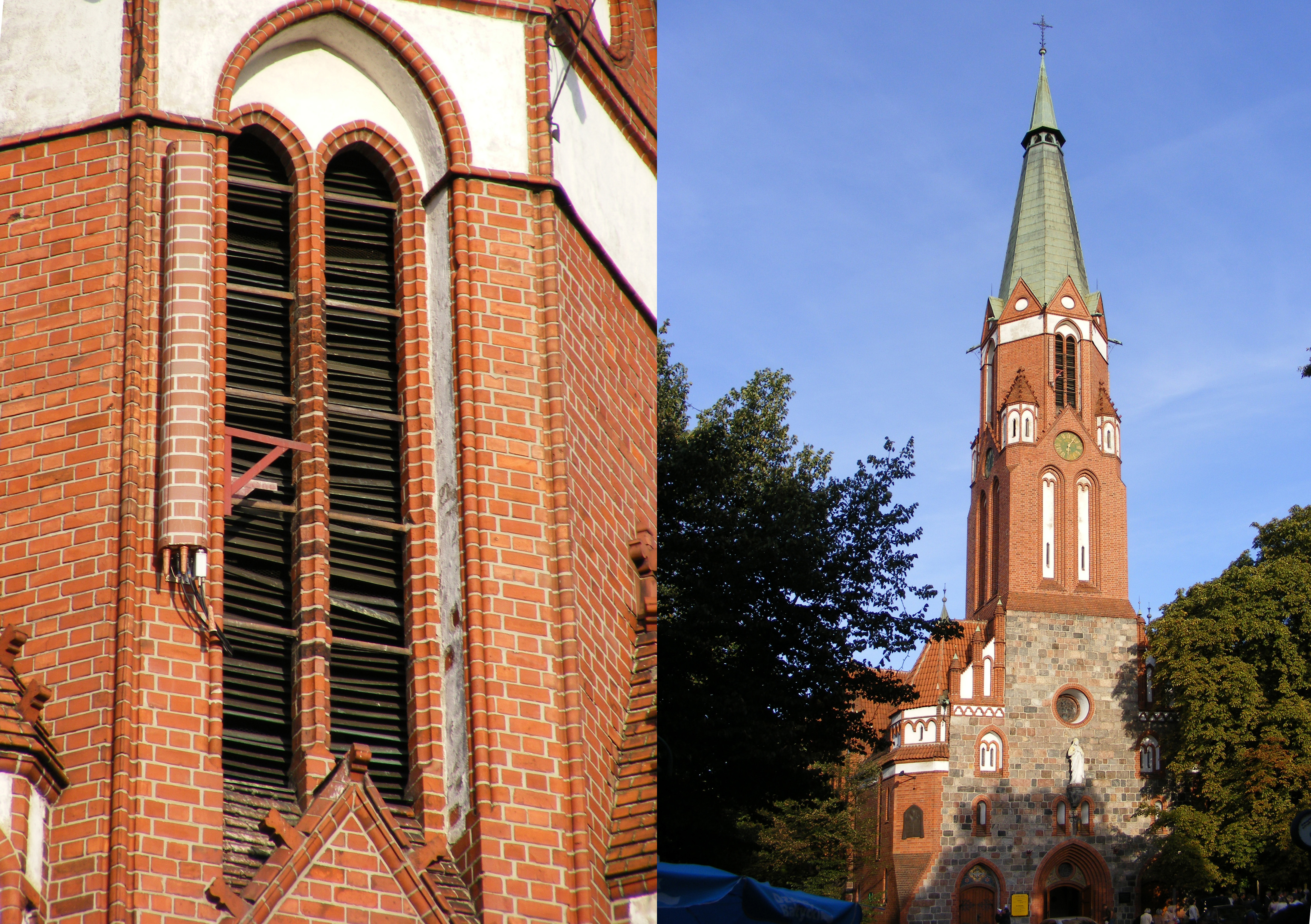 BTS & Node B antenna placed on one of the Churches in Sopot, Poland on the left side zoom on the antenna on the right overall view of the church